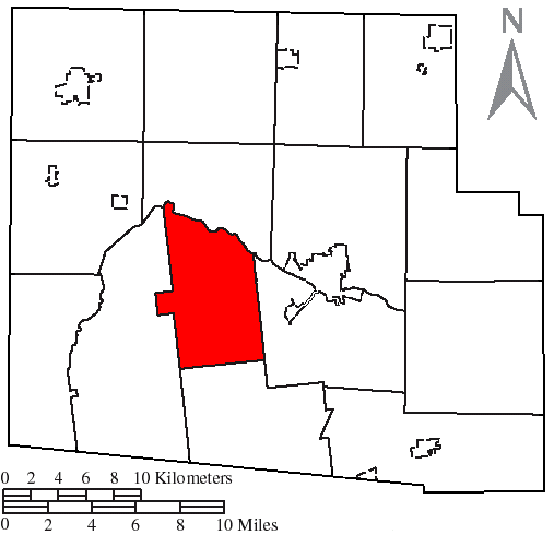 Made by the US Census and modified by myself to highlight the township